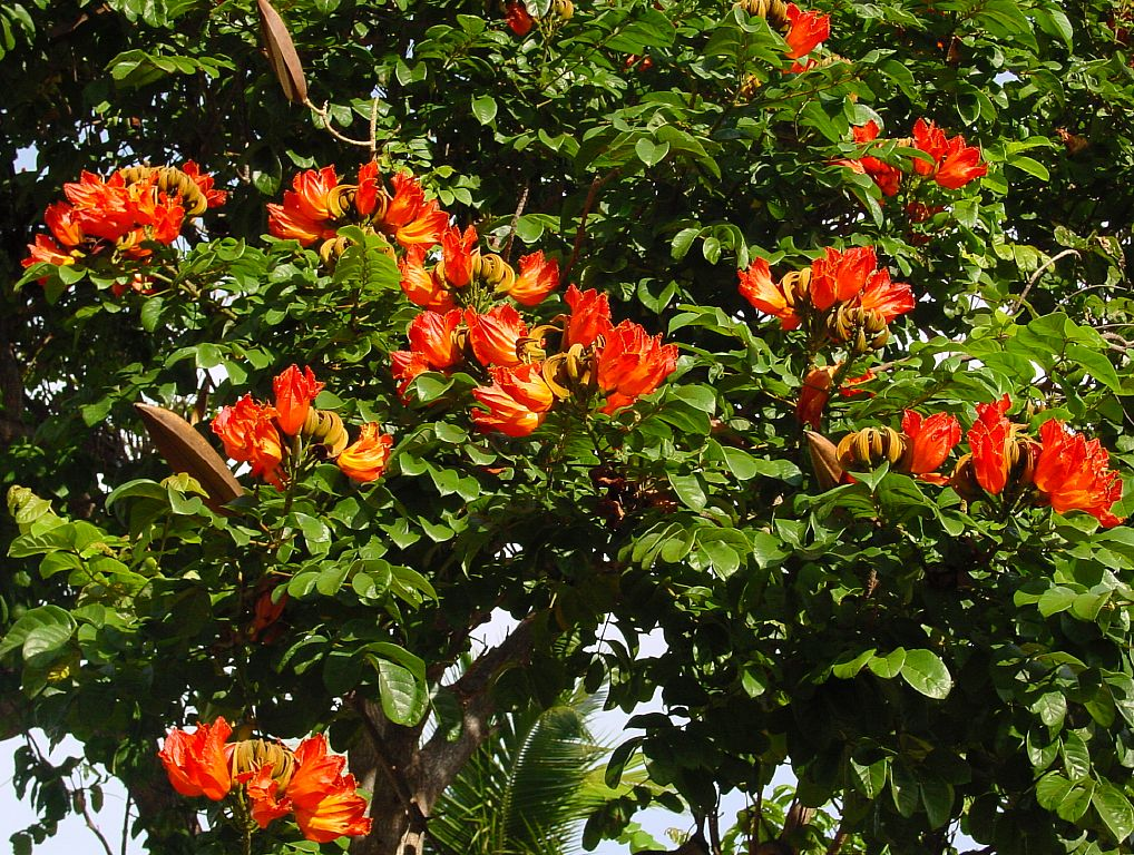 African tulip tree, Fountain tree, Flame-of-the-forest, or Nandi Flame. Photo taken in Hawaii.